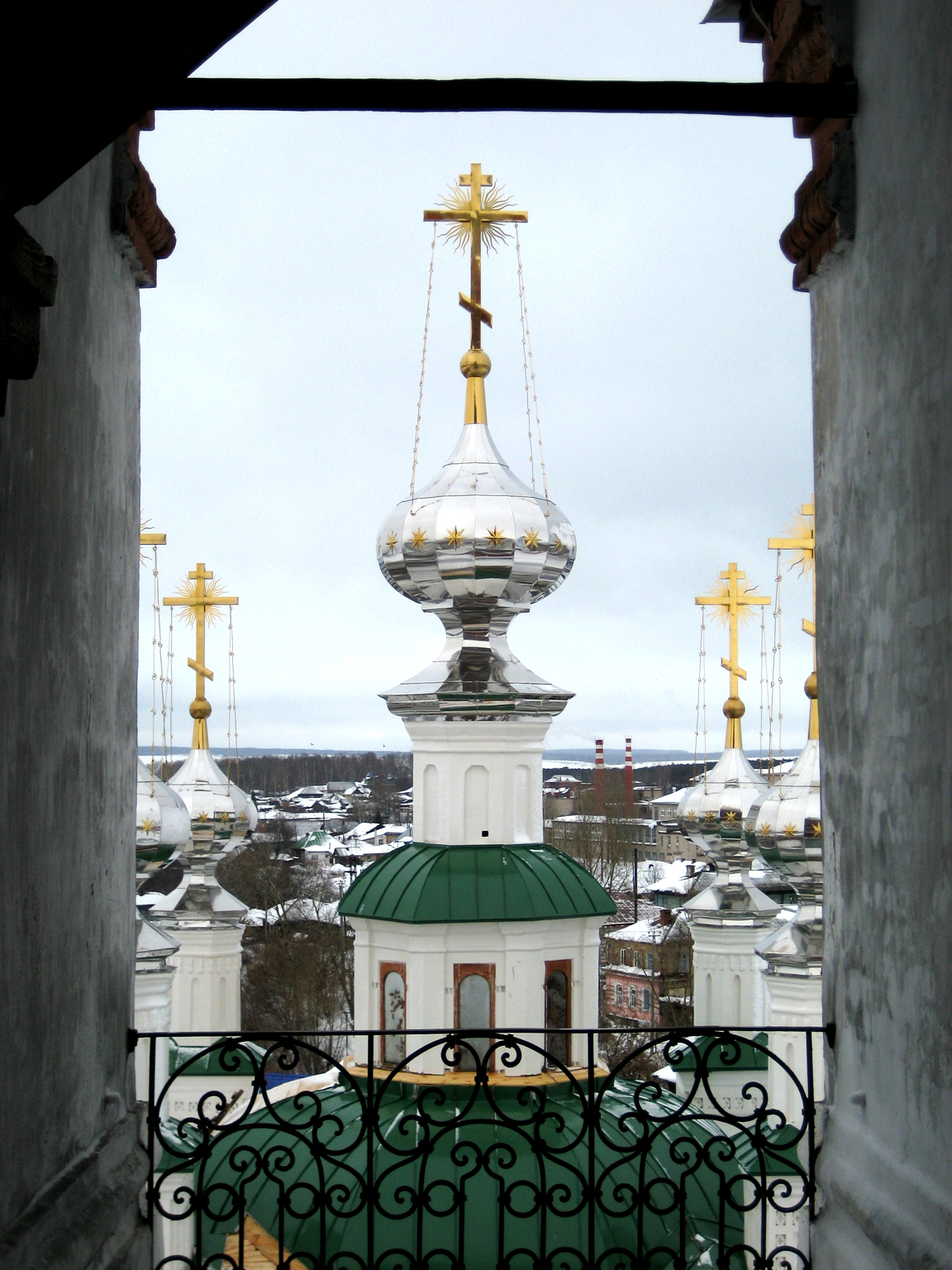 Church of icon Our Lady of Tikhvin. Тихвинский храм